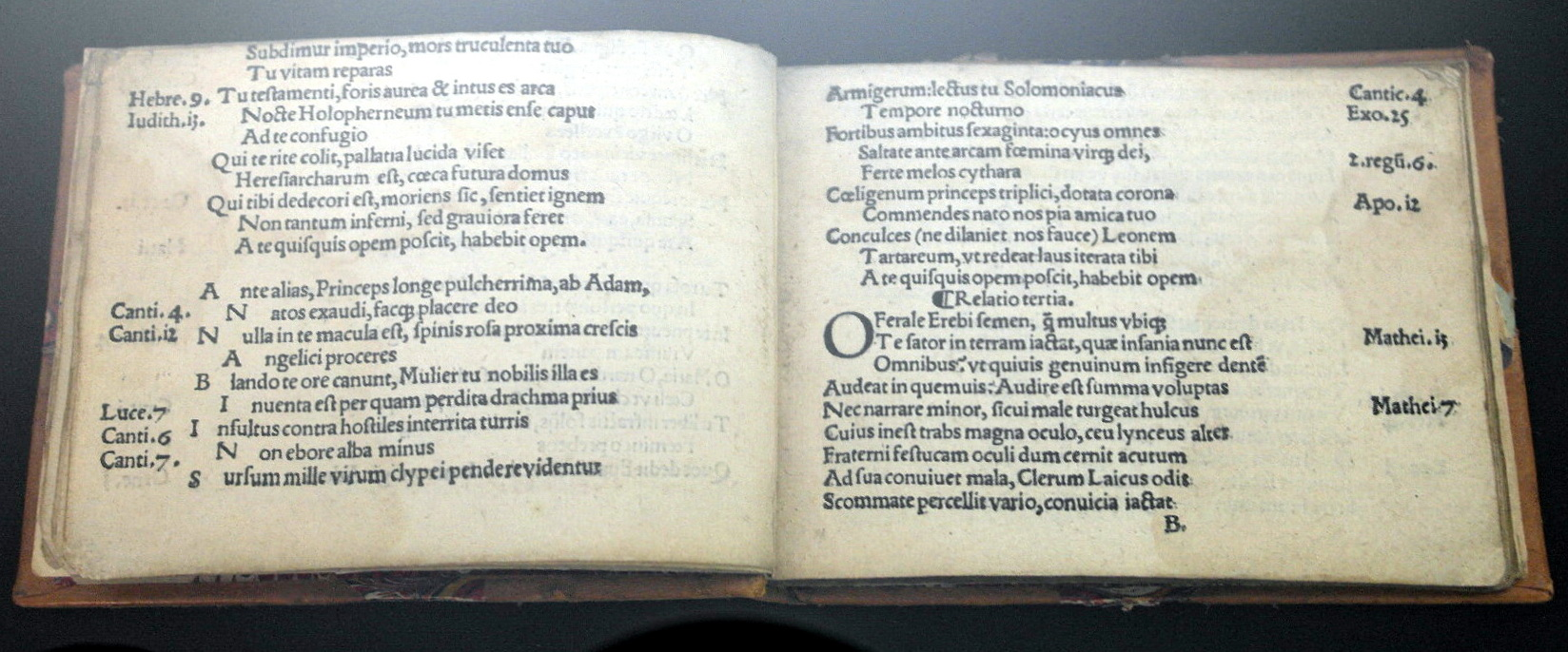 Songbook of Dutch songs translated into Latin (Antwerp, 1529) by Anna Bijns. Book collection of Centre Céramique, Maastricht, the Netherlands.